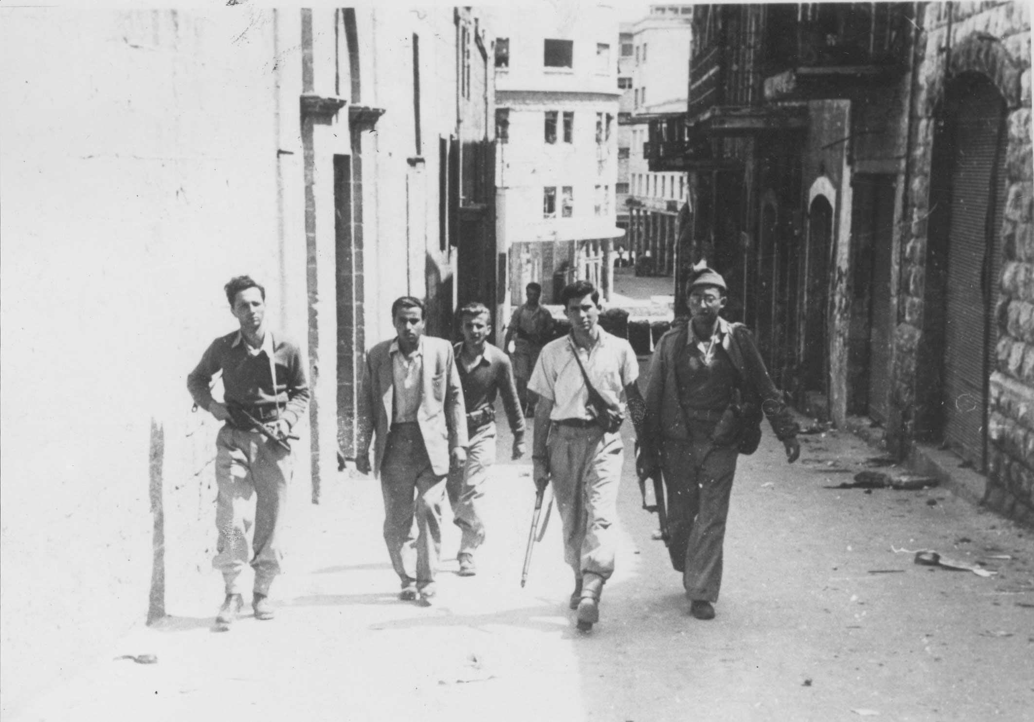 The Battle of Haifa (1948)